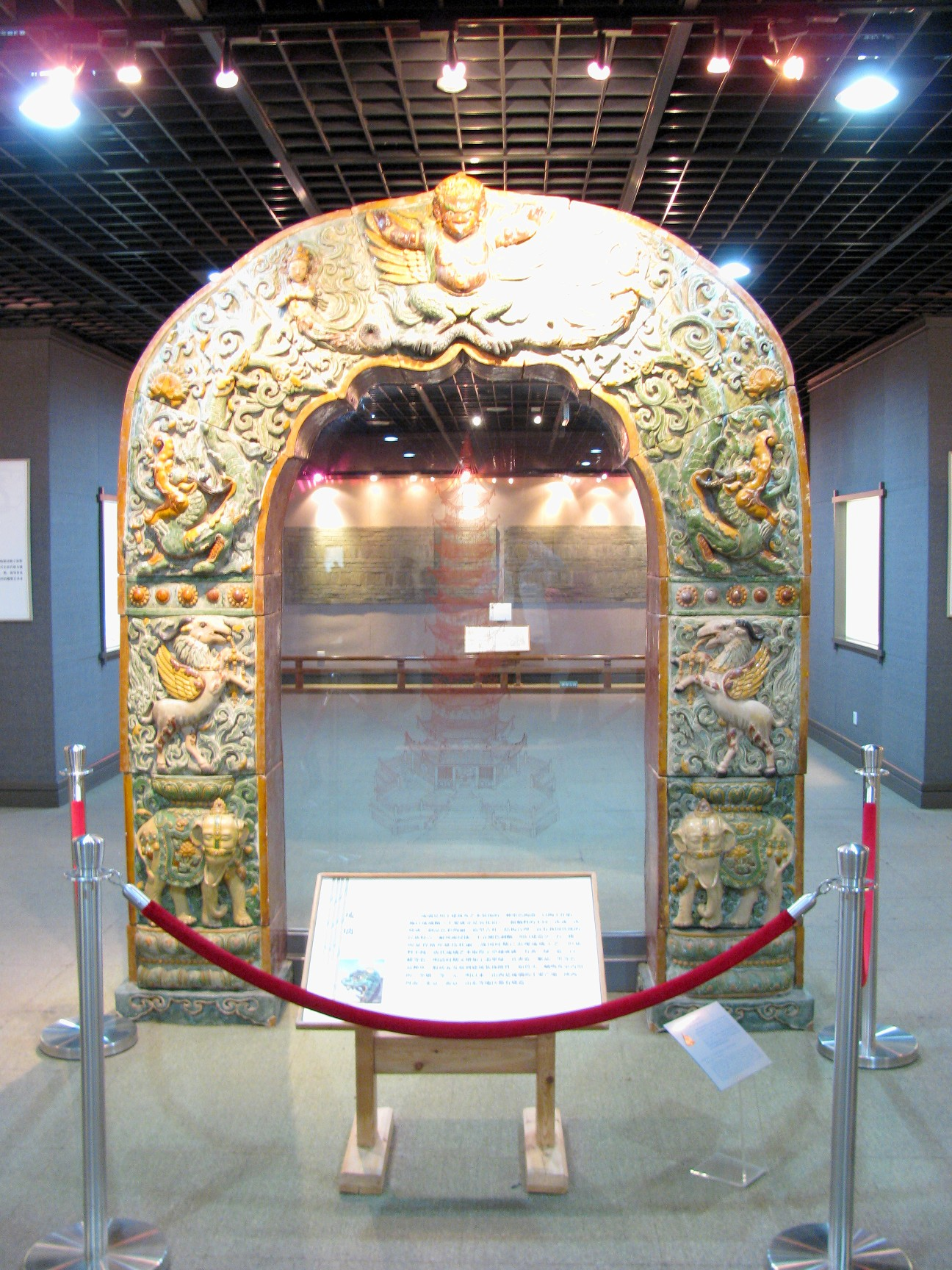 A part of the Porcelain Tower of Nanjing.